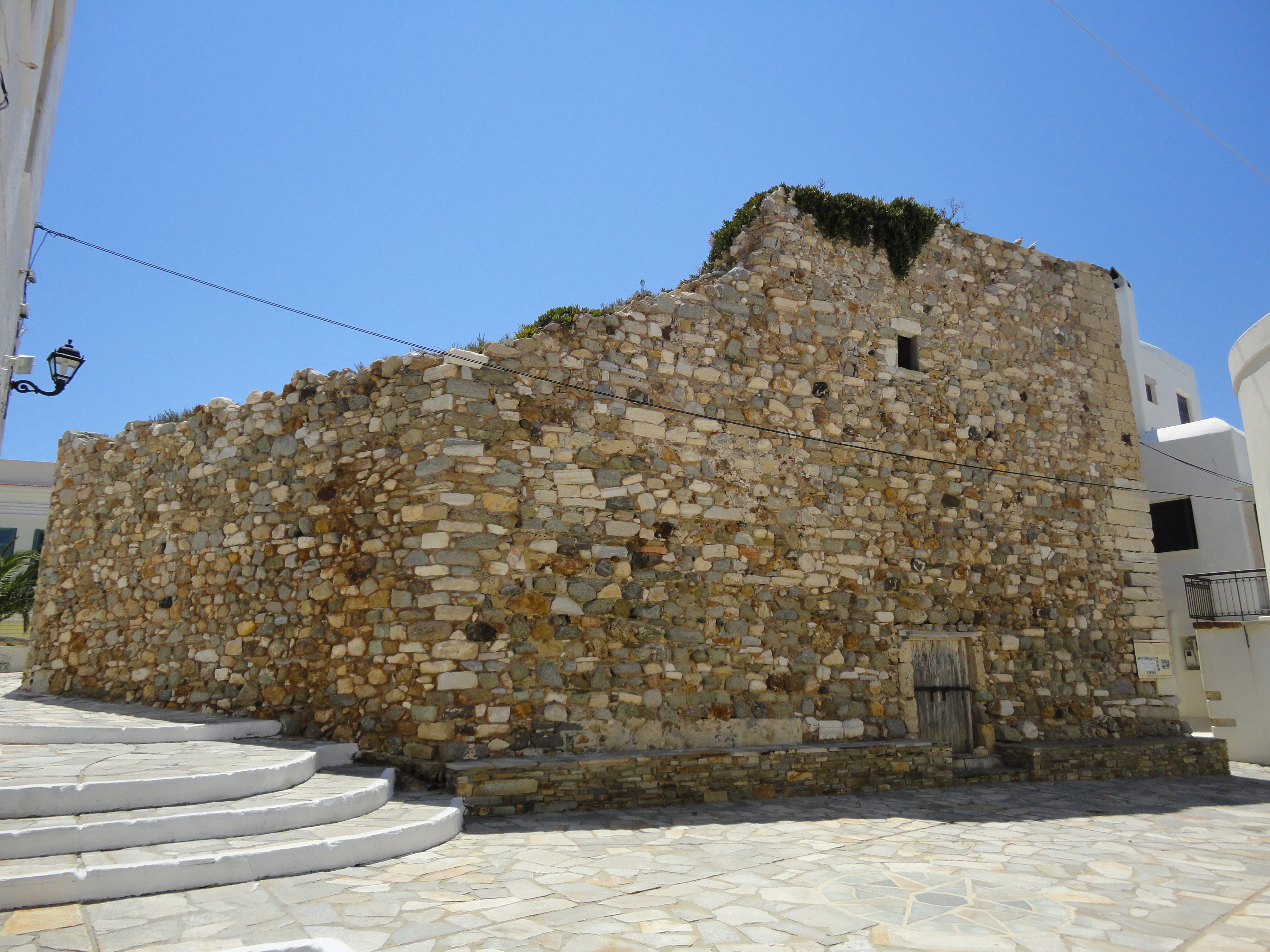 The Tower of Sanudo in Chora, Naxos. It was built in 1207 and was part of the Ducal Palace of the Duchy of Naxos